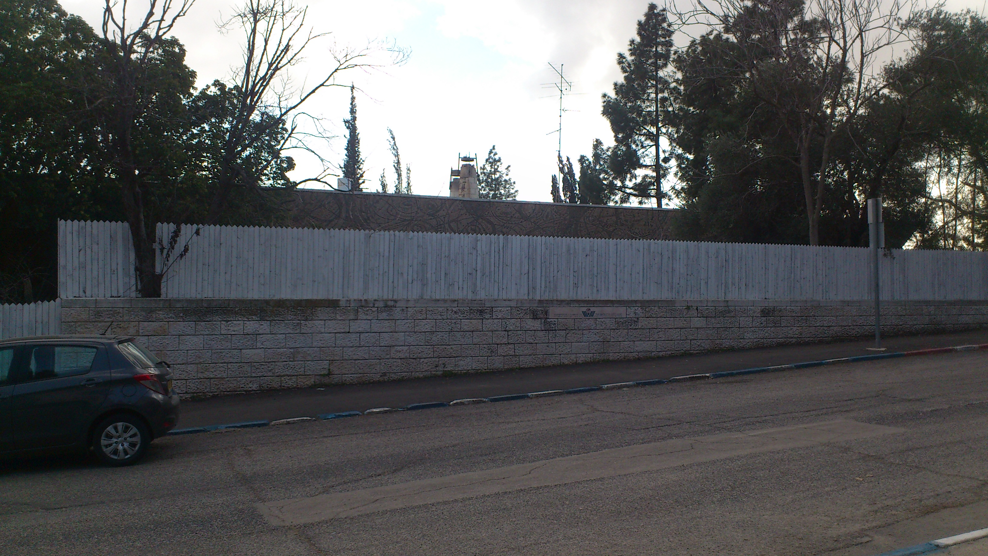 The Jewish People Policy Institute